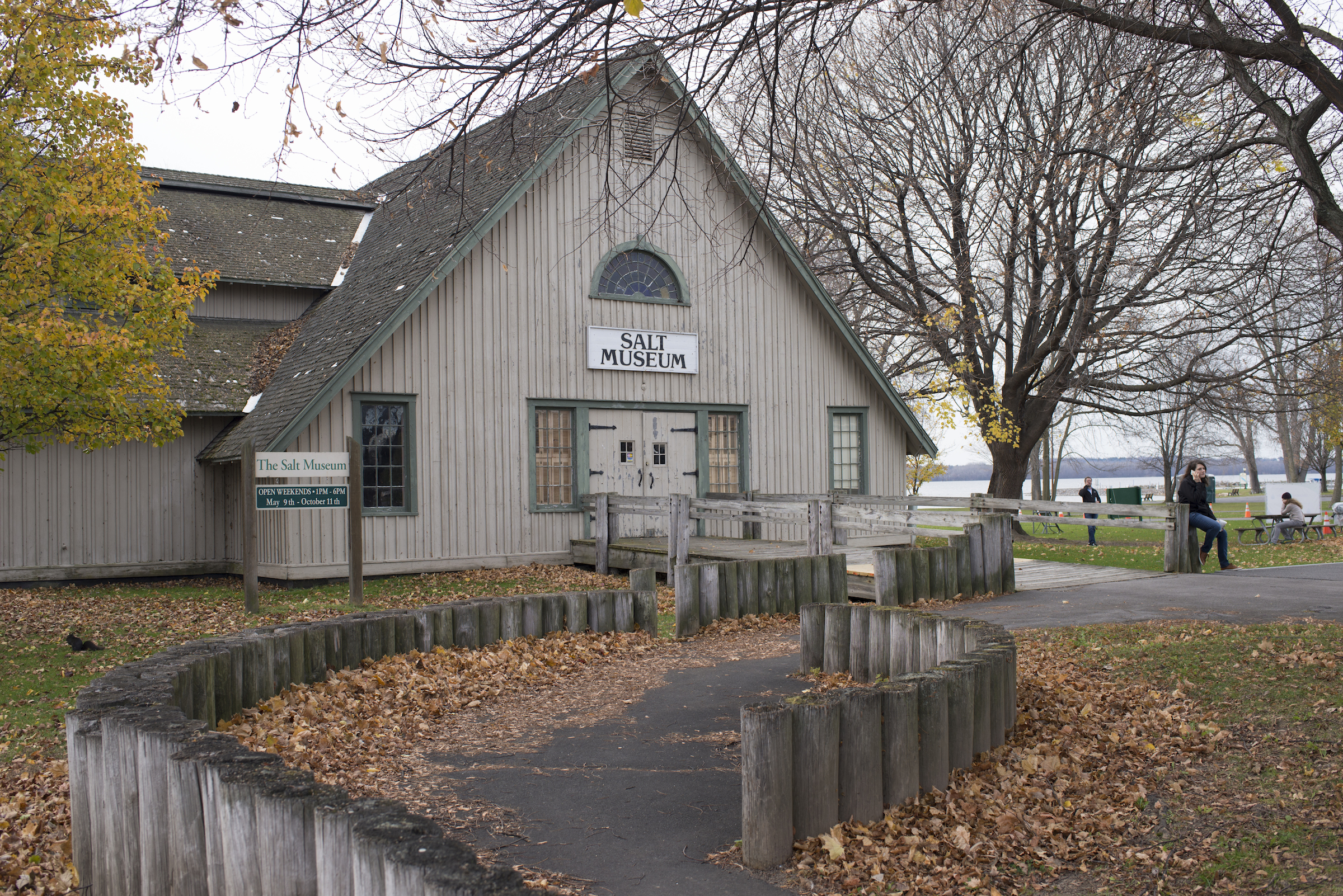 Salt Museum, on Onandaga Lake, Liverpool NY